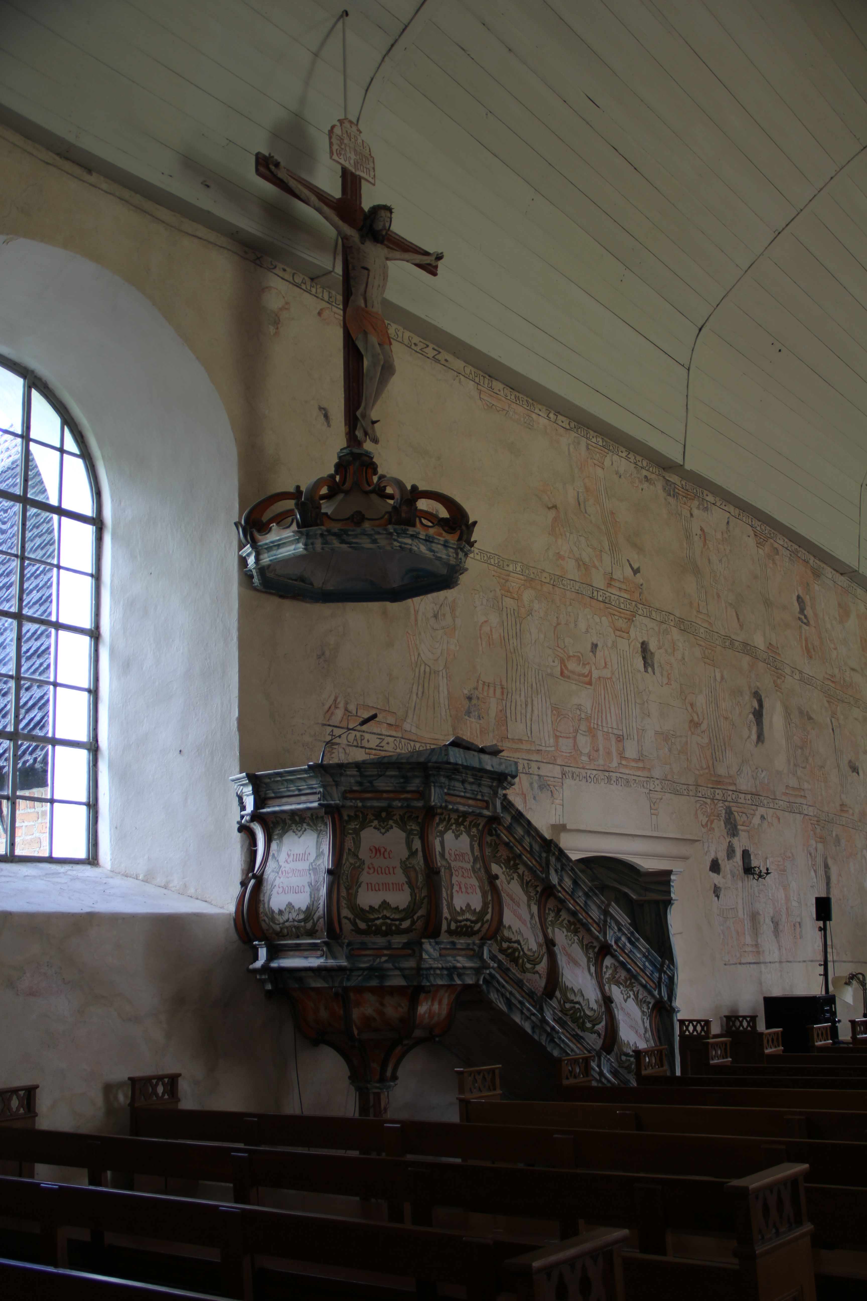 Isokyrö medieval church, Isokyrö, Finland. - Pulpit (1770-1771)